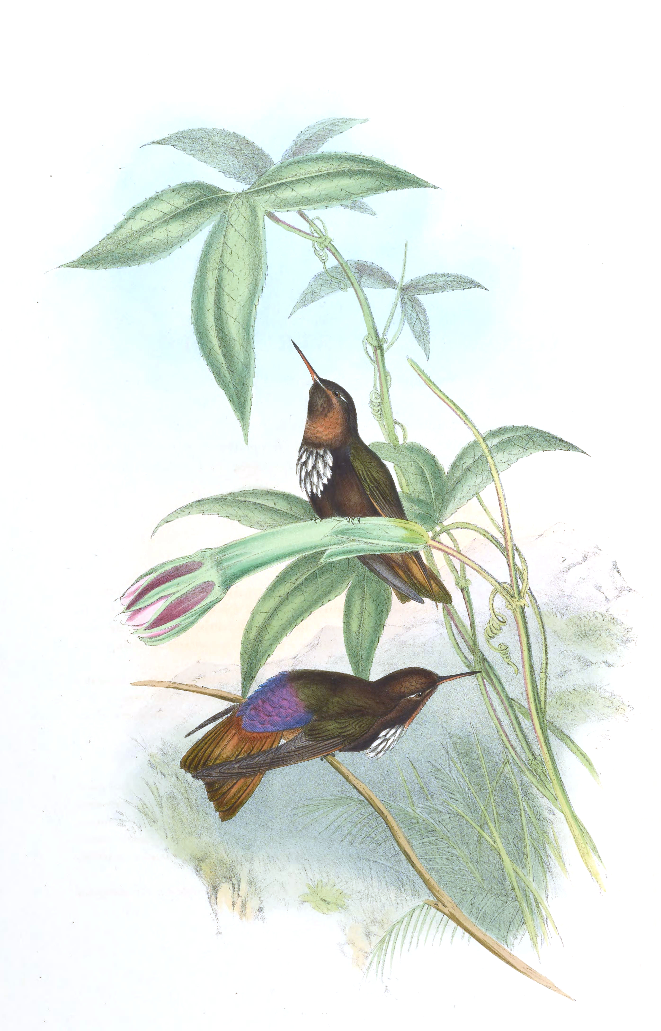 Aglaeactis castelnaui = Aglaeactis castelnaudii (as mentioned in the book itself)